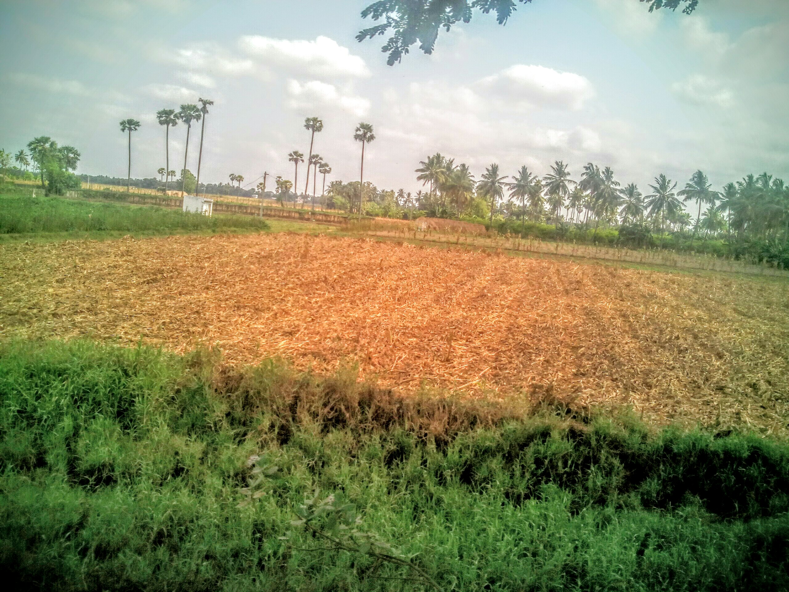 Agricultural fields at Angalakuduru